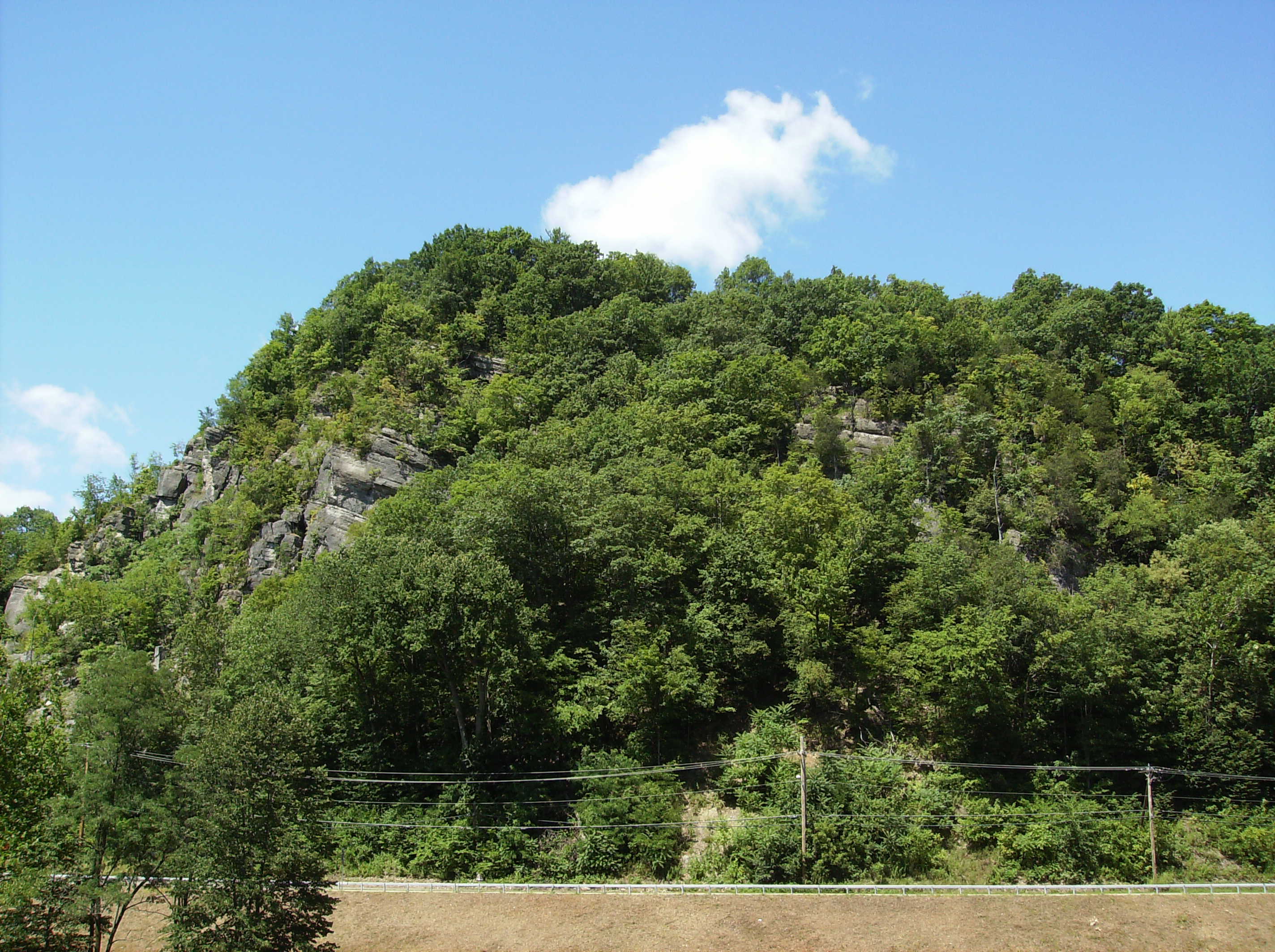 View of Joppenbergh Mountain from across the Rondout Creek in Rosendale, New York.